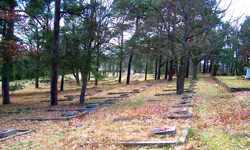 Sovet prisoners-of-war cemetery between Beniaminów and Białobrzegi.